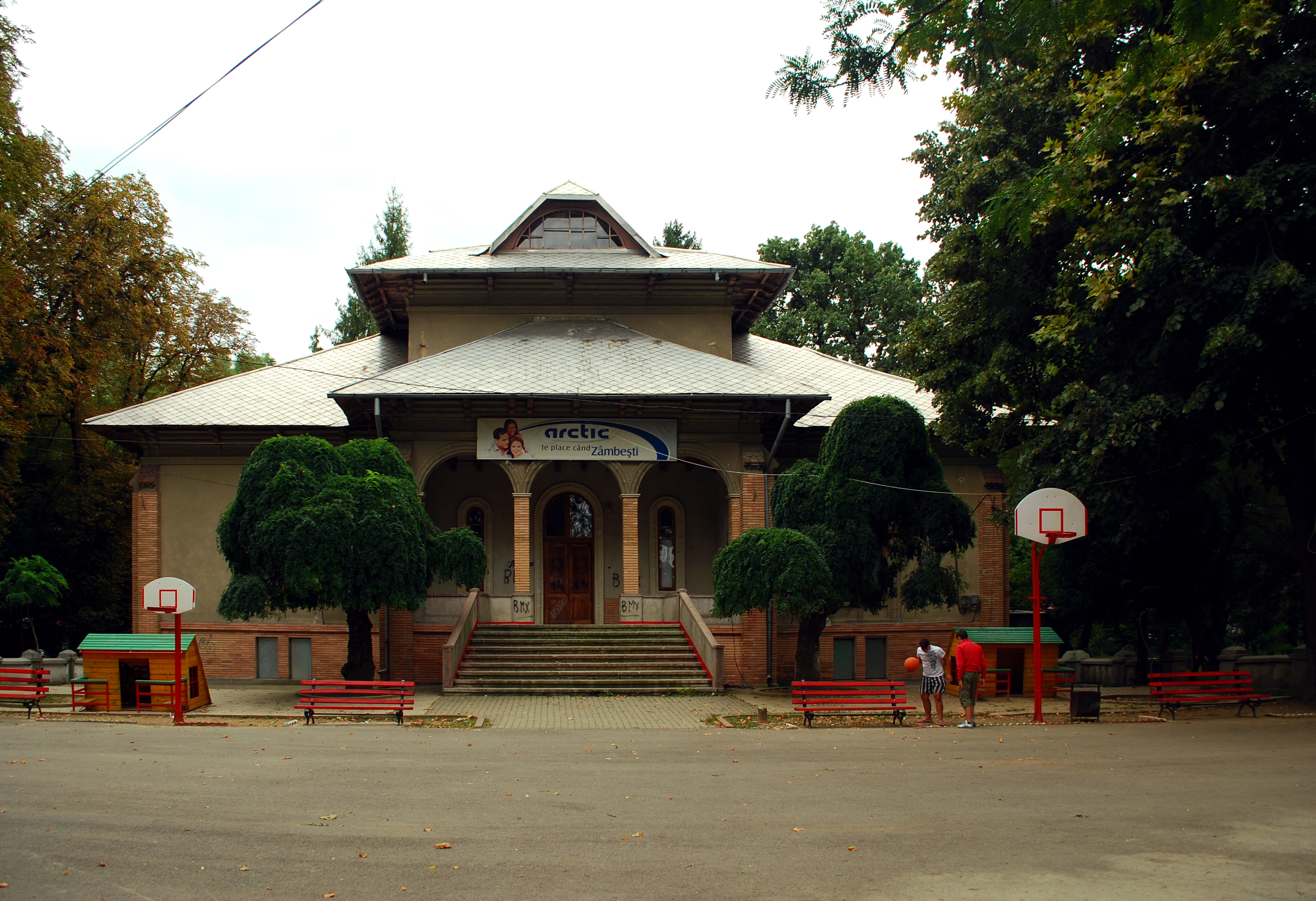 Grigore Olănescu mansion in Găești, Dâmbovița County, RomaniaRomână: Conacul Grigore Olănescu din Găești, județul Dâmbovița, România